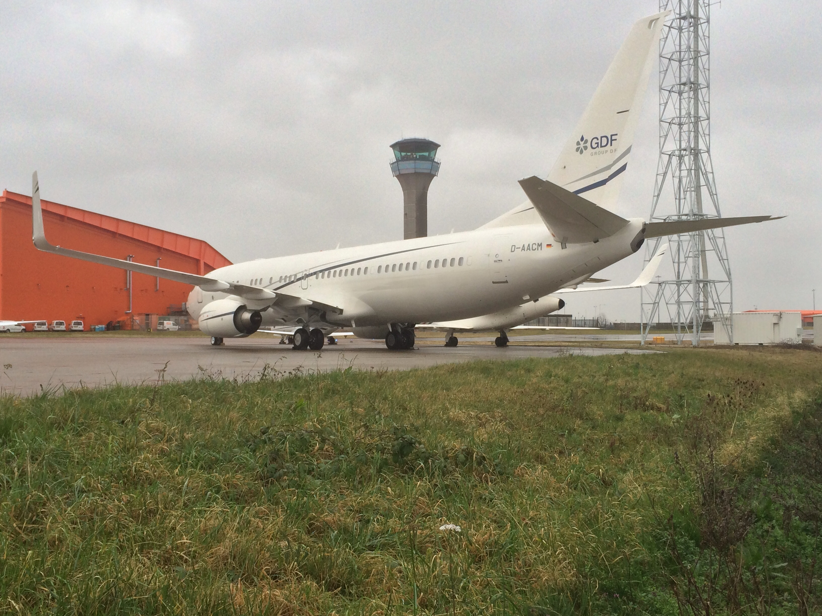 At London Luton